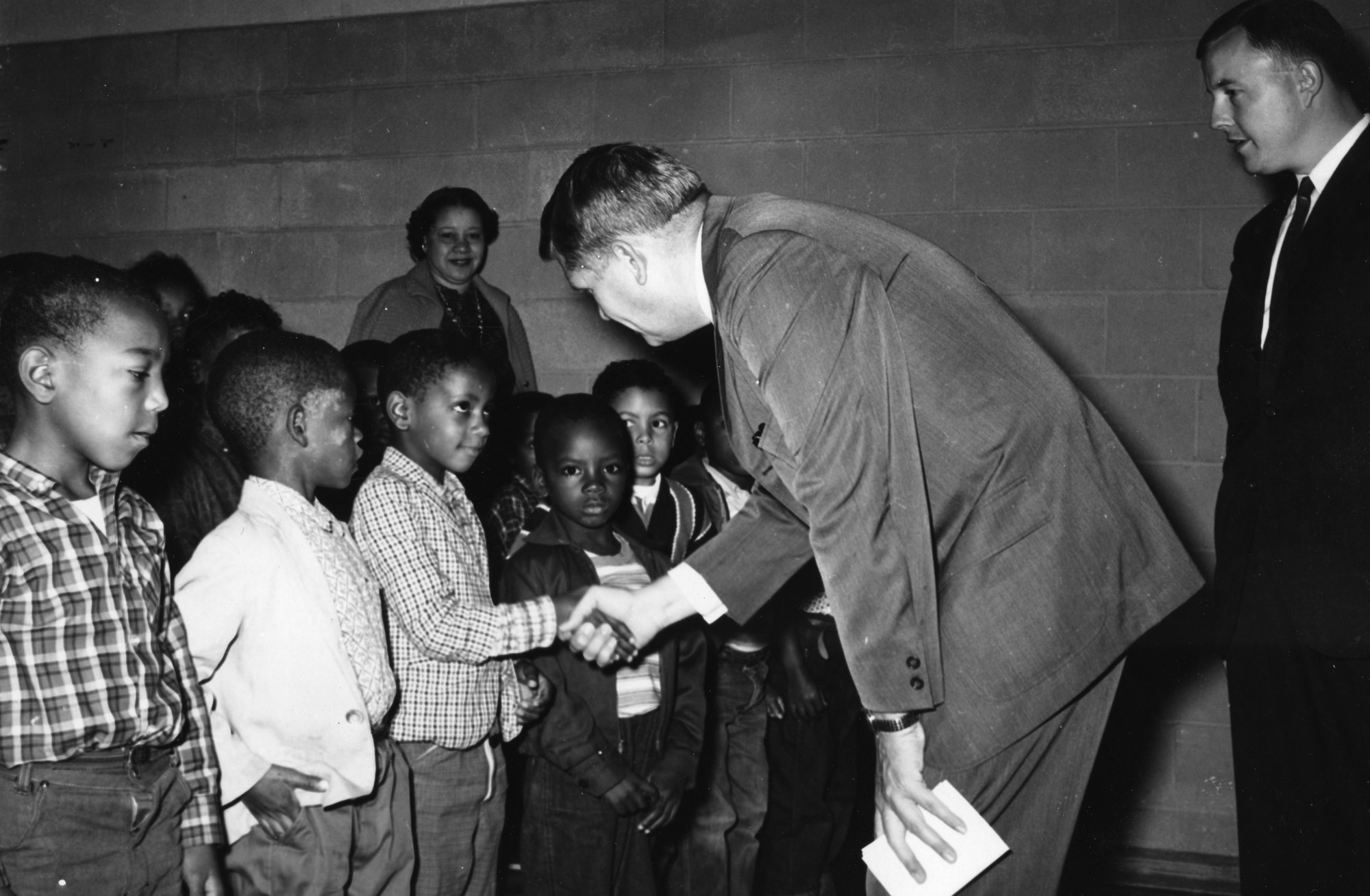 Governor Terry Sanford meeting with black school children at Happy Plains School in Alexander County. Photo by Lt. Lloyd Burchett of the North Carolina Highway Patrol. From the Raymond Stone Photograph Collection of Governor Terry Sanford's Education Tour, 1962, PhC.136, State Archives of North Carolina, Raleigh, NC.